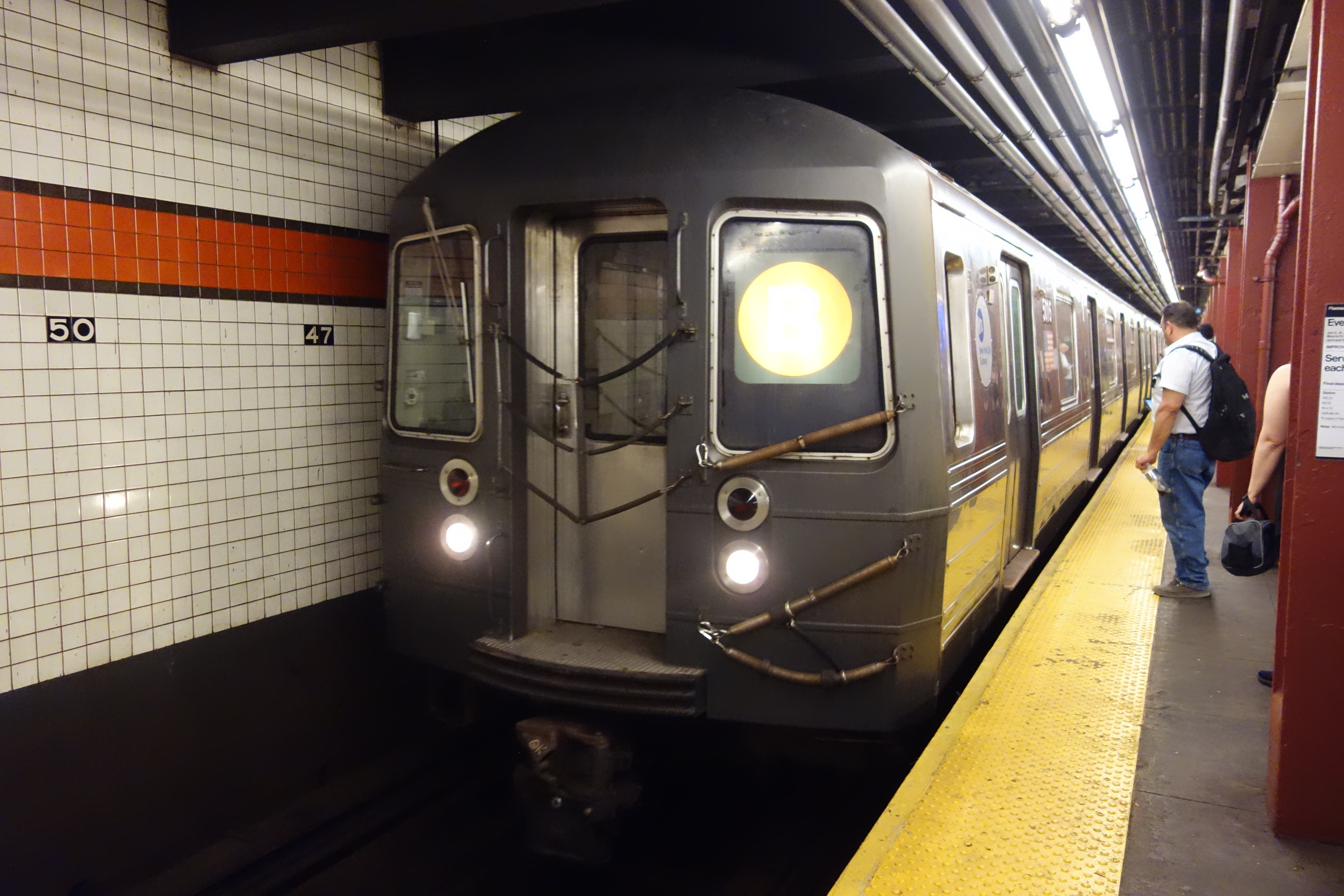 A Brighton Beach-bound B express train arriving on the outer track at the Downtown platform of the 47th–50th Streets–Rockefeller Center station of the IND Sixth Avenue Line in Midtown Manhattan